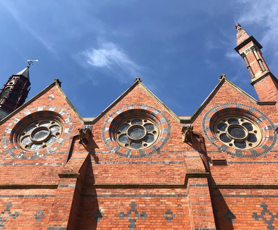 Detail of three rose windows comprising stone tracery within polychromatic brickwork surrounds upon side-gables, interspersed between aquiline gargoyles above setback engaged buttresses